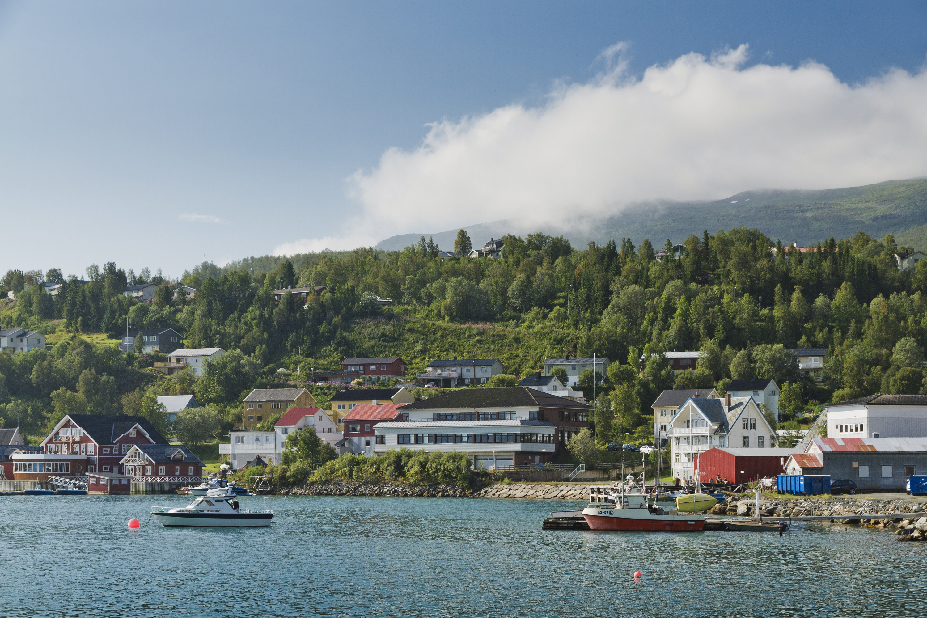 A view by the coast of Lyngseidet in Lyngen municipality, Troms, Norway in 2014 August.